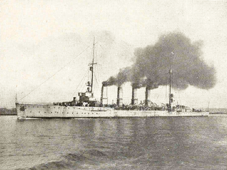 French armoured cruiser Mulhouse, originally German cruiser SMS Stralsund